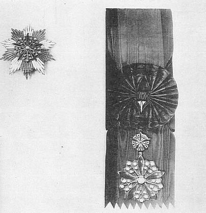 Grand Cordon of the Supreme Order of the Orchidaceae